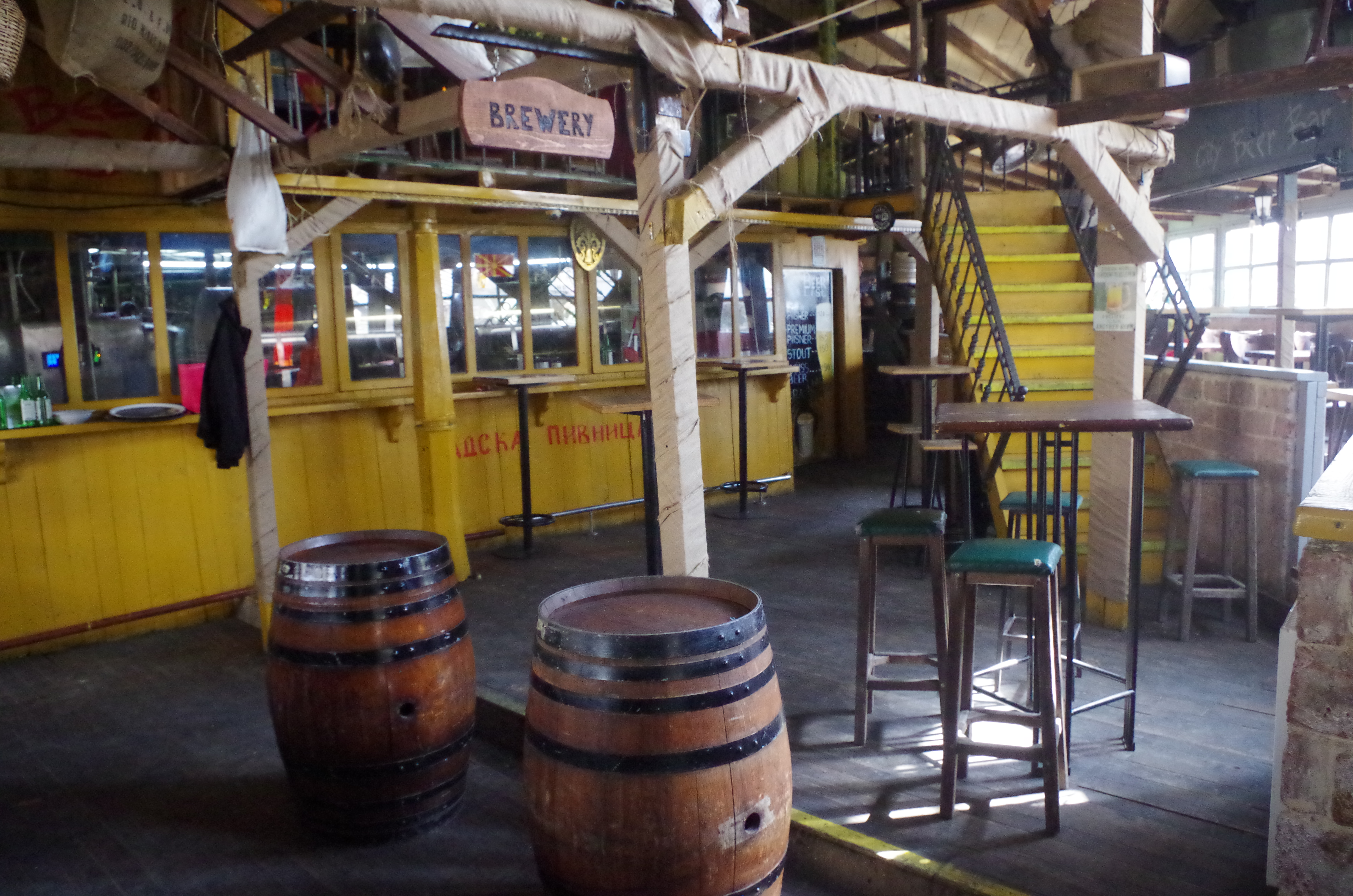 Craft beers and brewery "Temov" in Skopje, Macedonia